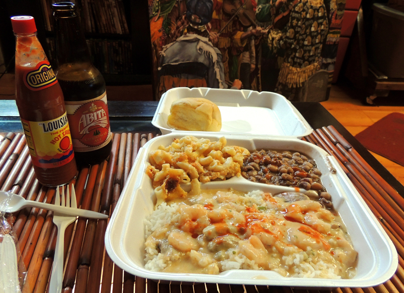 A Cajun style meat and three plate lunch consisting of Shrimp and Crab Étouffée, baked macaroni and cheese, and black eyed peas from Dwyers Cafe in Lafayette, Louisiana. Included in the shot is a bottle of Louisiana local Abita beer and a bottle of Lousiana Hot Sauce.